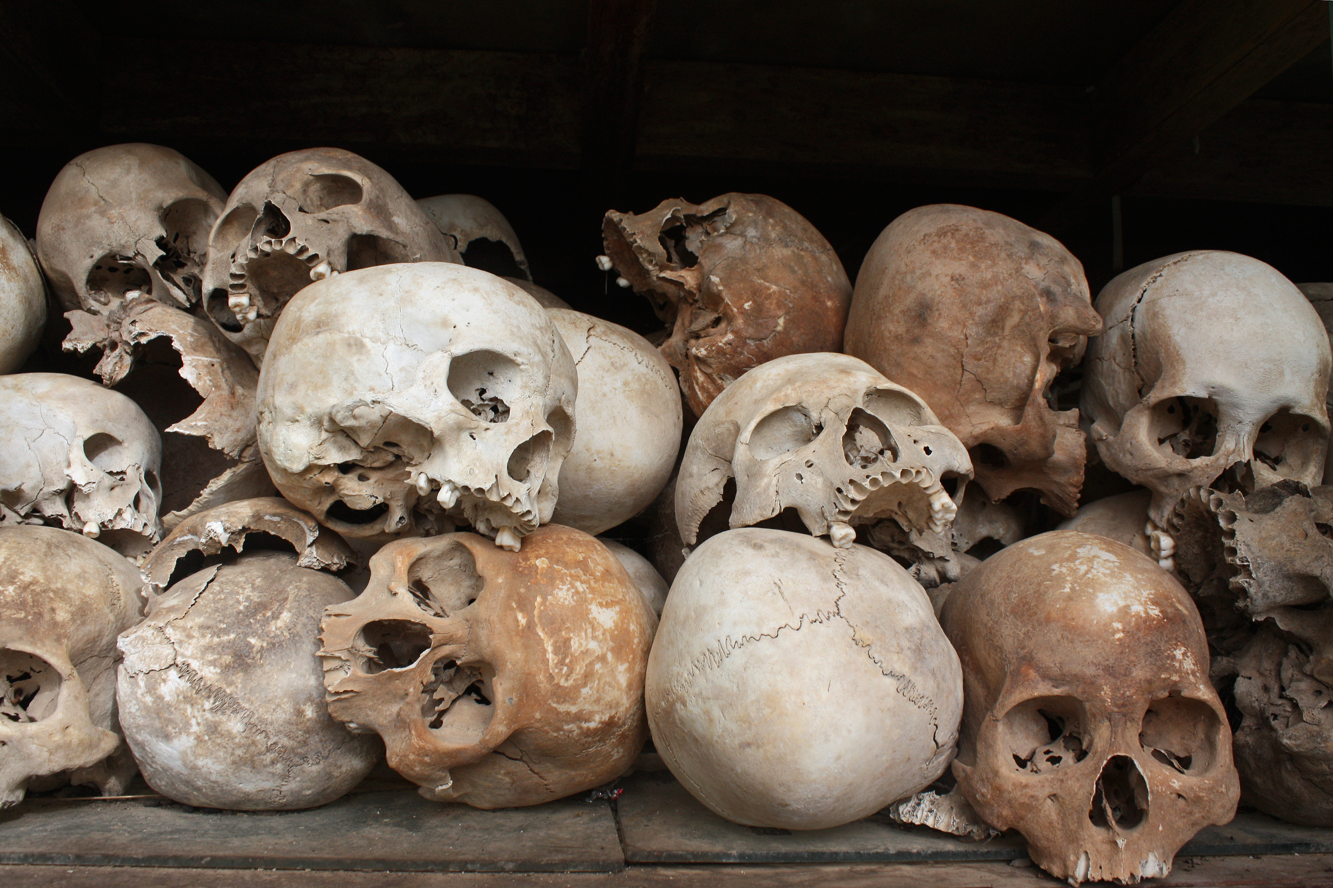 Skulls of the victims of the Khmer Rouge occupation of Cambodia in the memorial stupa at the Choeung Ek Killing Field, Phnom Penh, Cambodia.